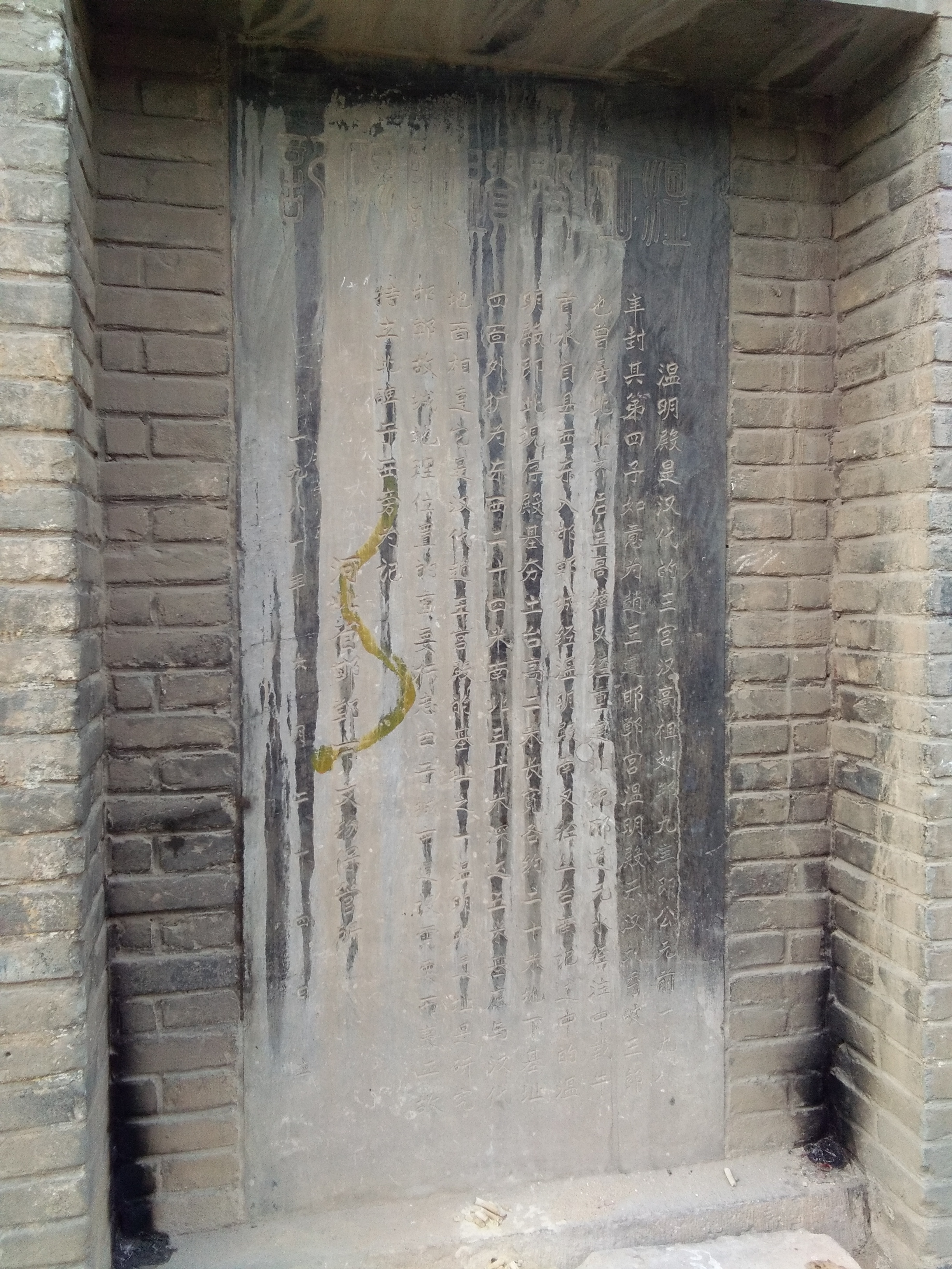 Wen Ming Dian is a Han Dynasty building, a palace built by Liu Bang for his son Liu Ruyi, and is now the Handan City Cultural Relic Protection Unit.